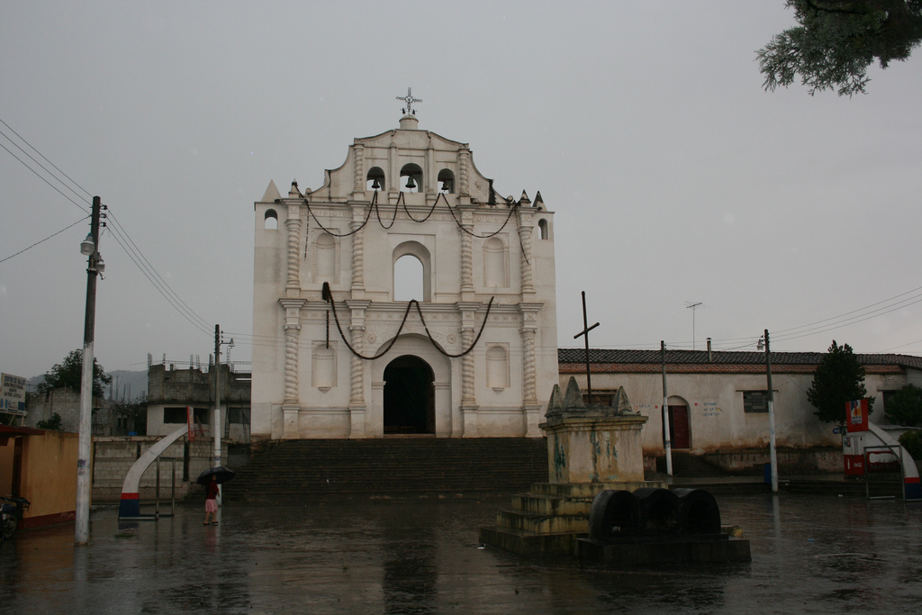 Catholic church of San Pedro Jocopilas, El Quiché, Guatemala.